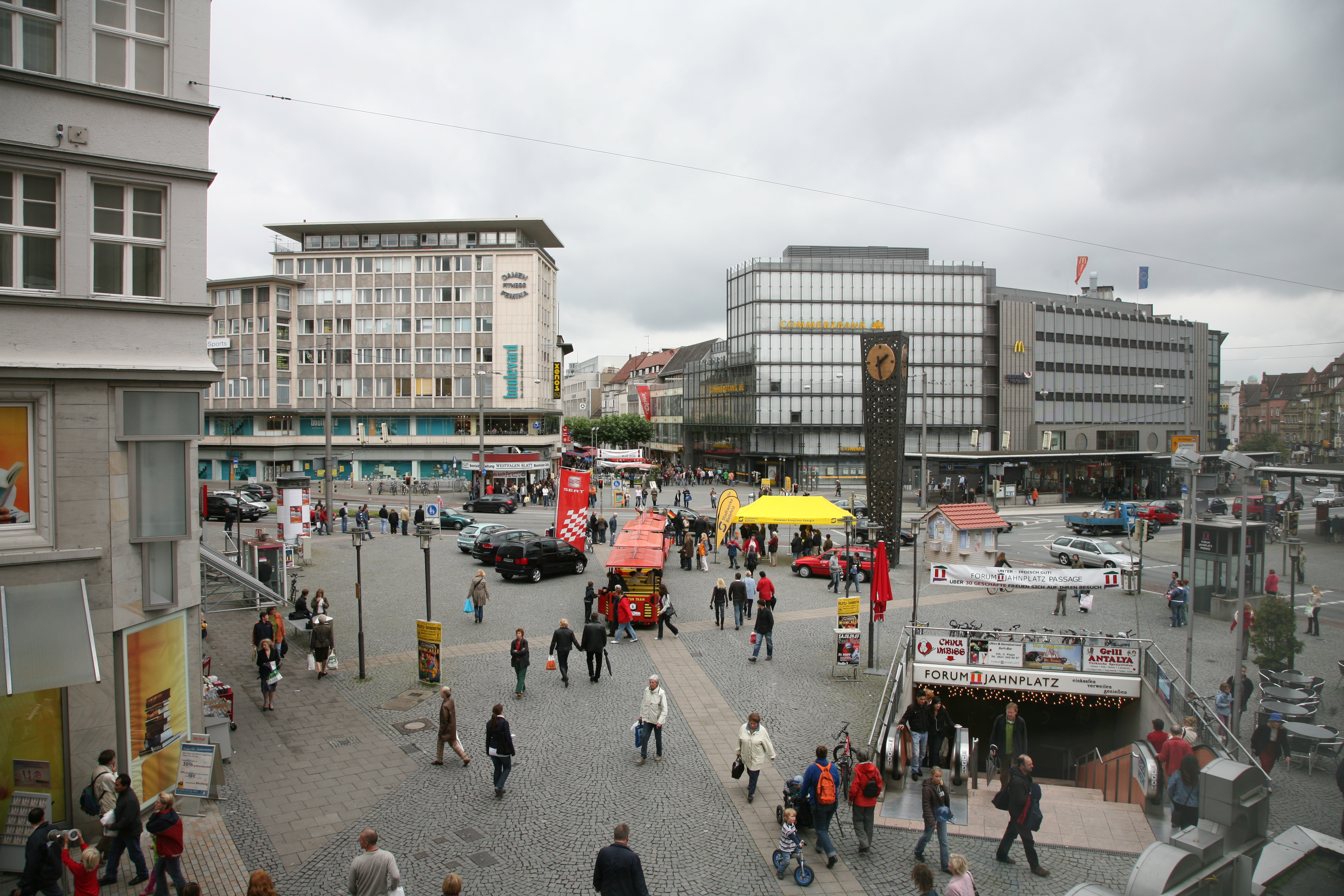 Jahn Square (Jahnplatz) in Bielefeld, Germany